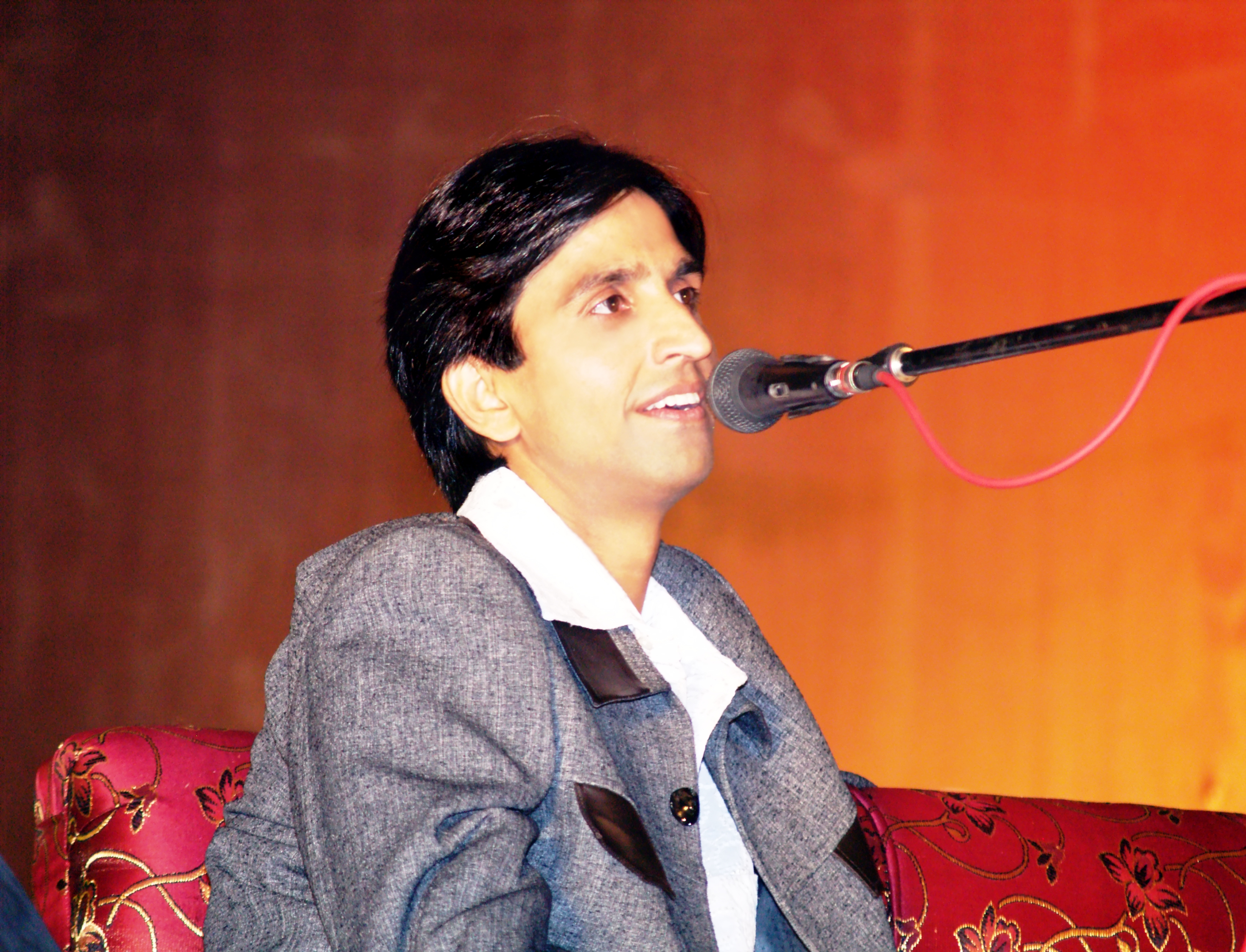 This is well renowned poet.